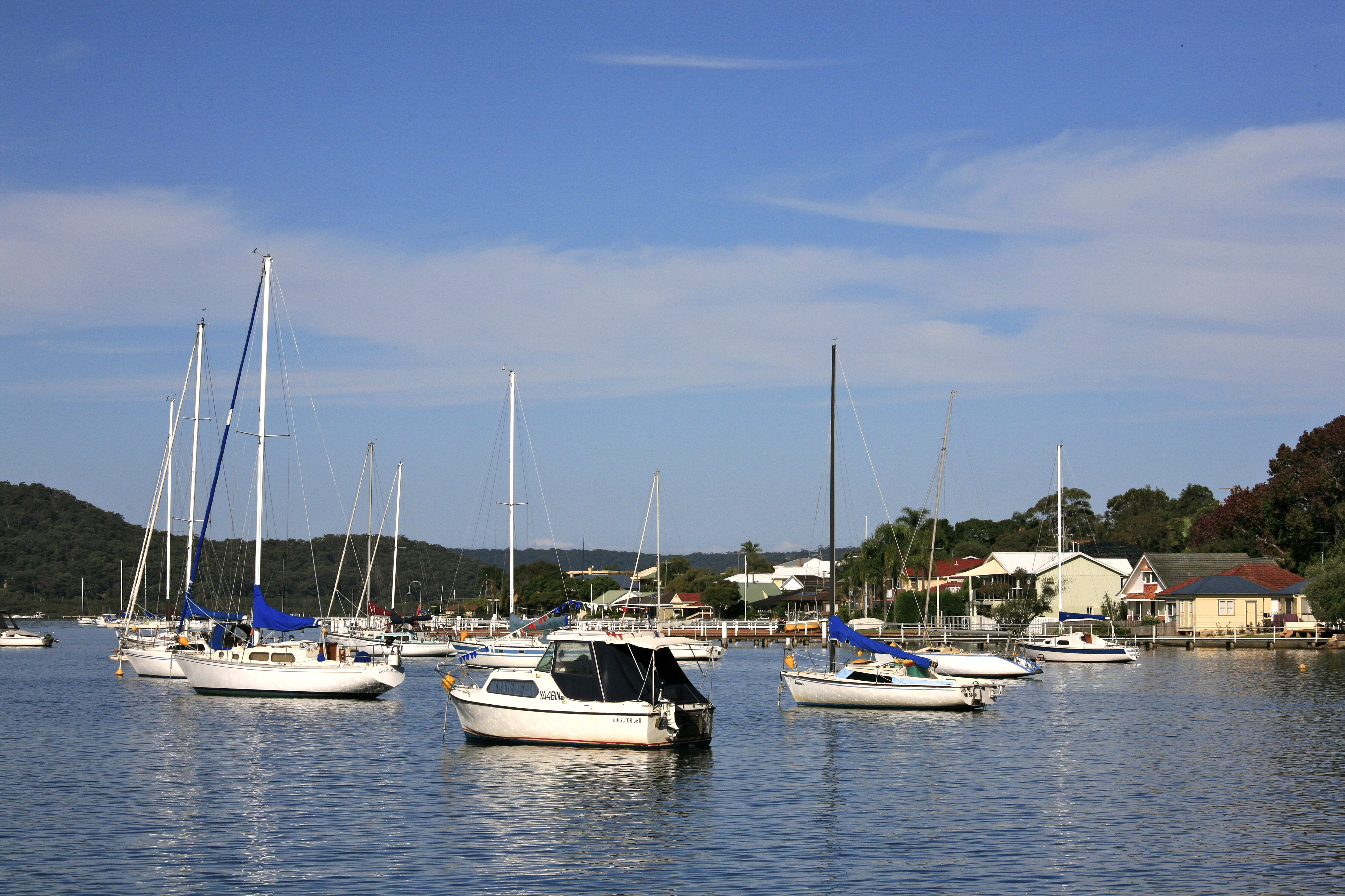 Woy Woy, Australia